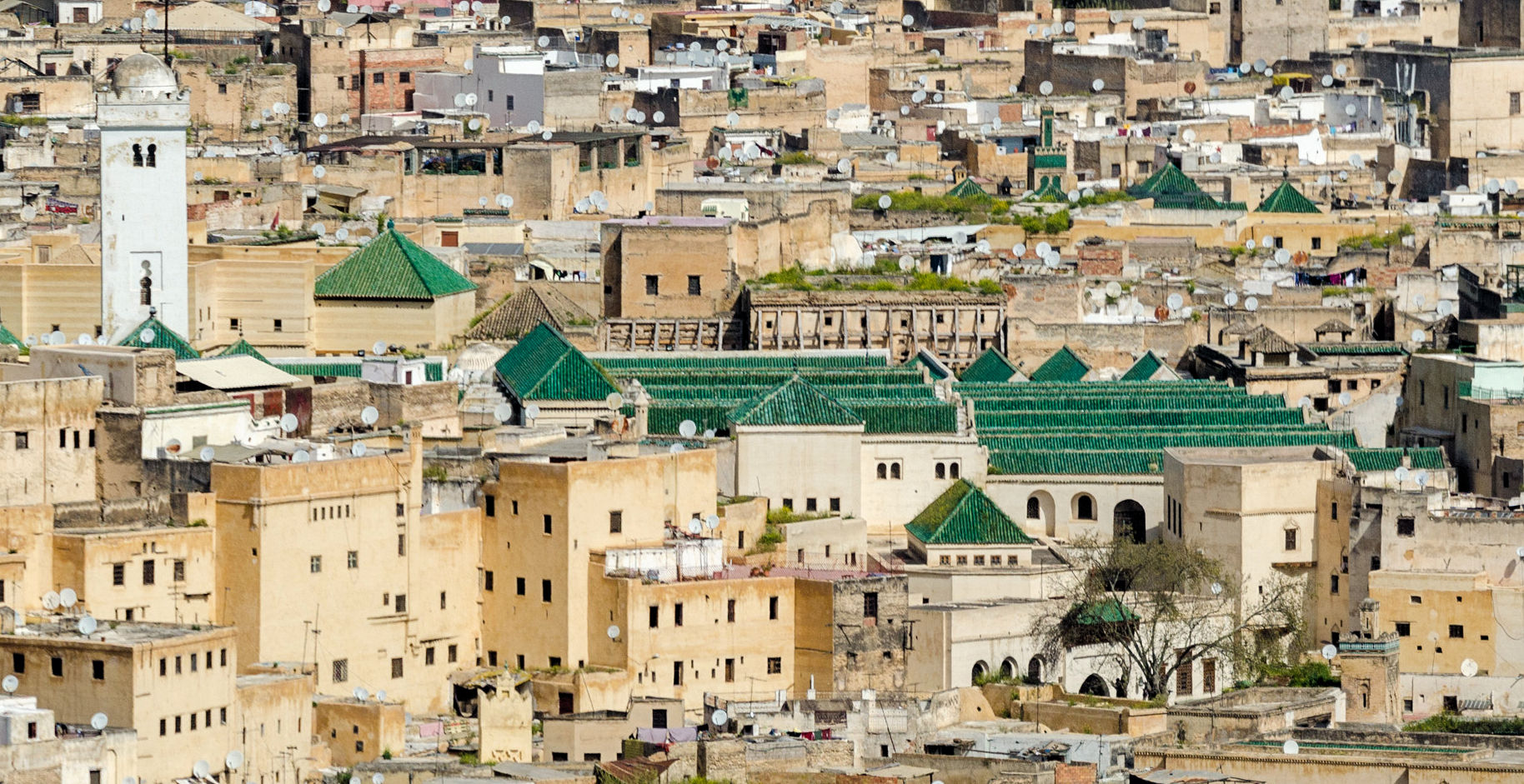 Cropped image to highlight the Qarawiyyin Mosque on the skyline.